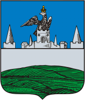 Bolkhov (Oryol oblast), coat of arms (1781)